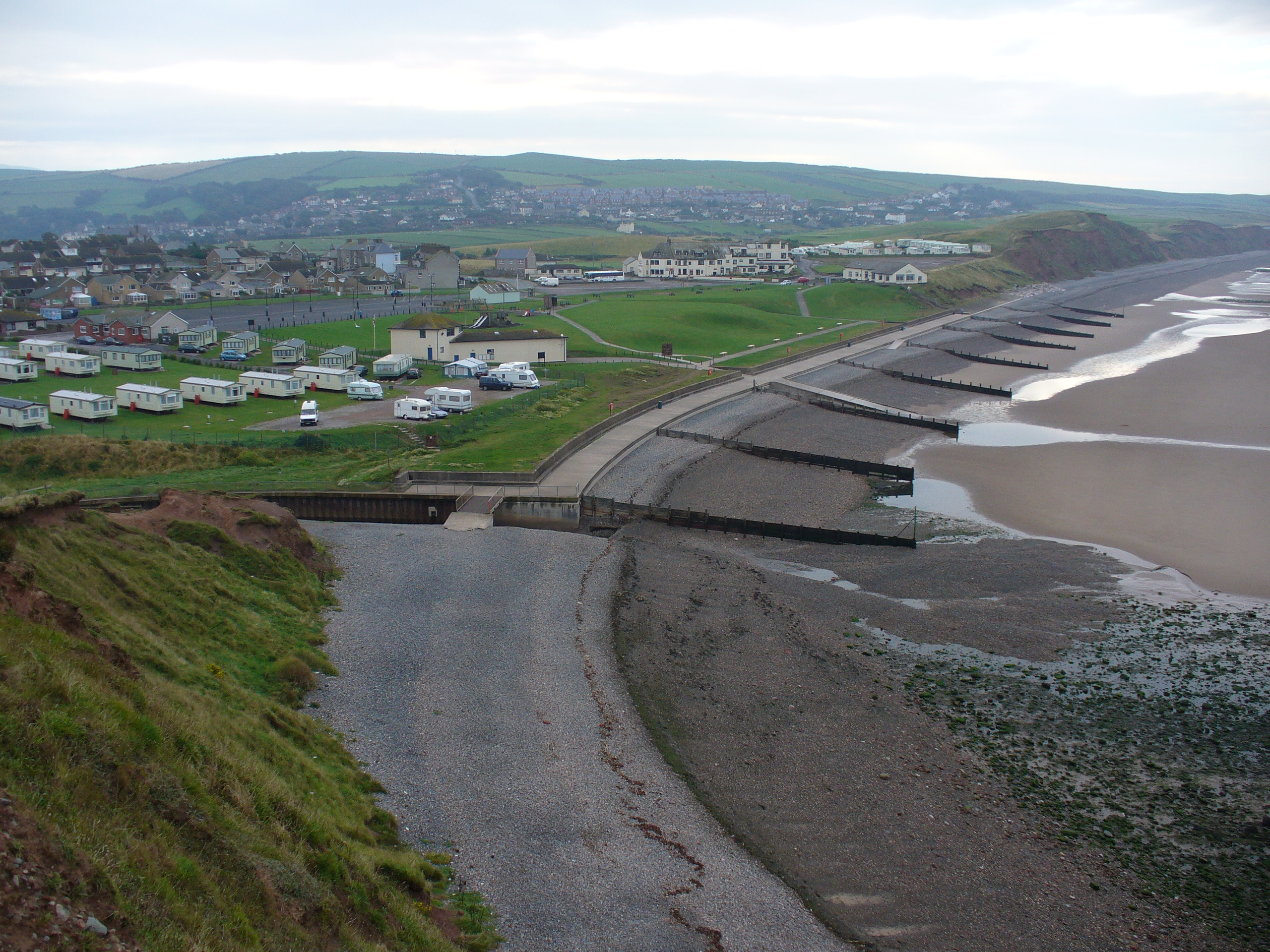 St Bees viewed from South Head.